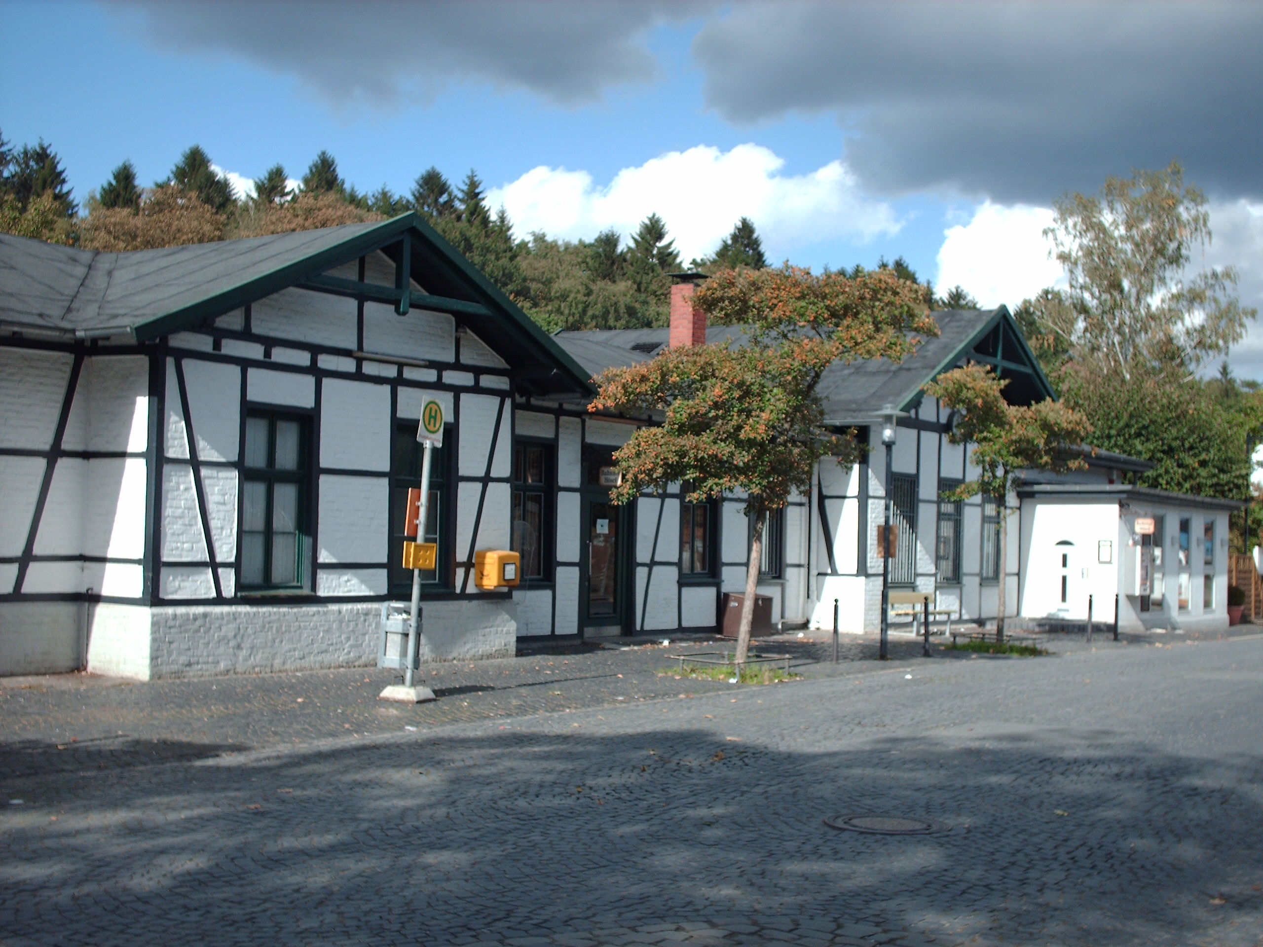 Hösel station, Ratingen, Germany check usage